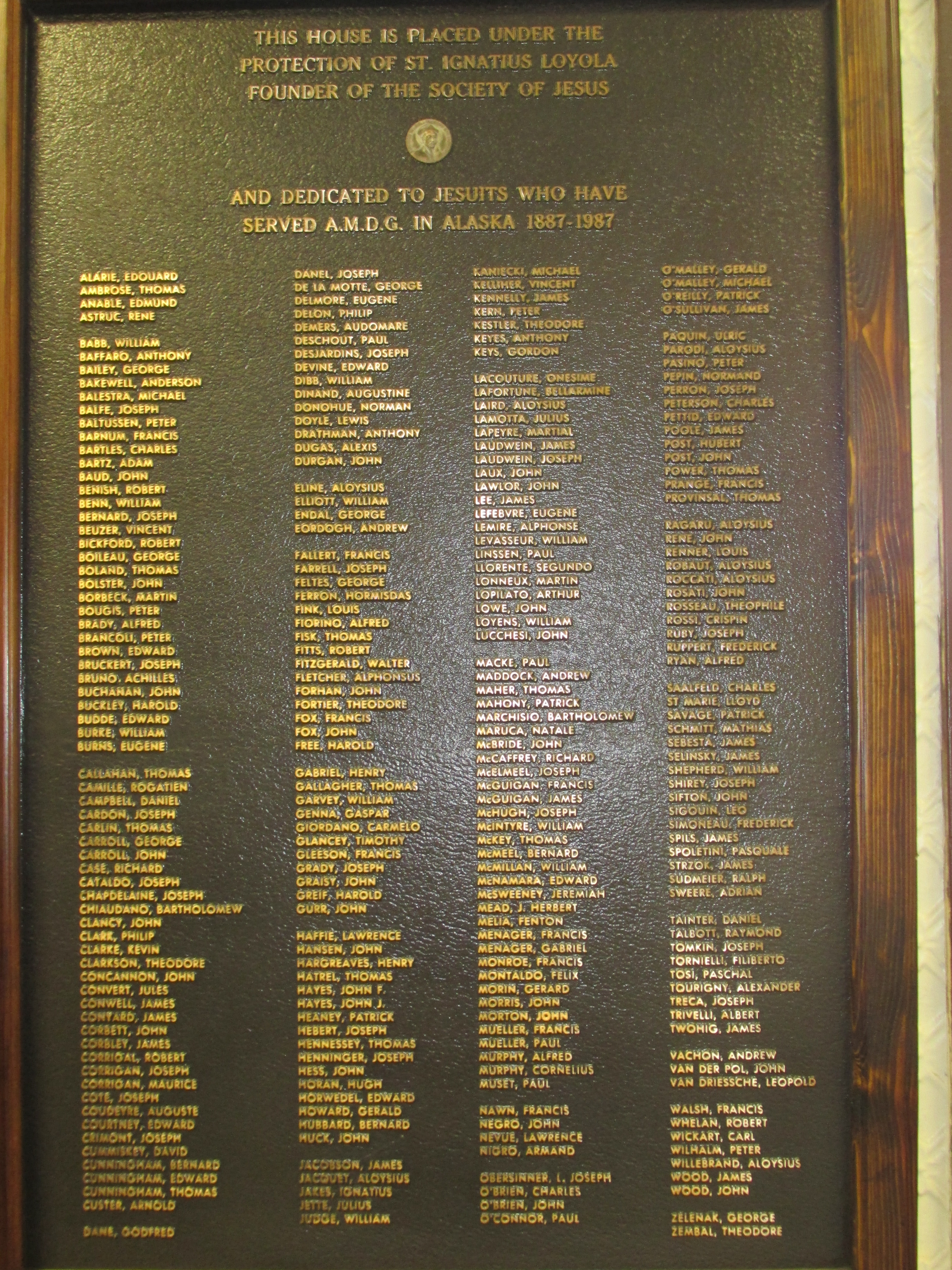 Plaque honoring and listing the names of Jesuit priests who served in Alaska. This plaque was commissioned on the occasion of the centennial of the arrival of the Jesuits in Alaska.